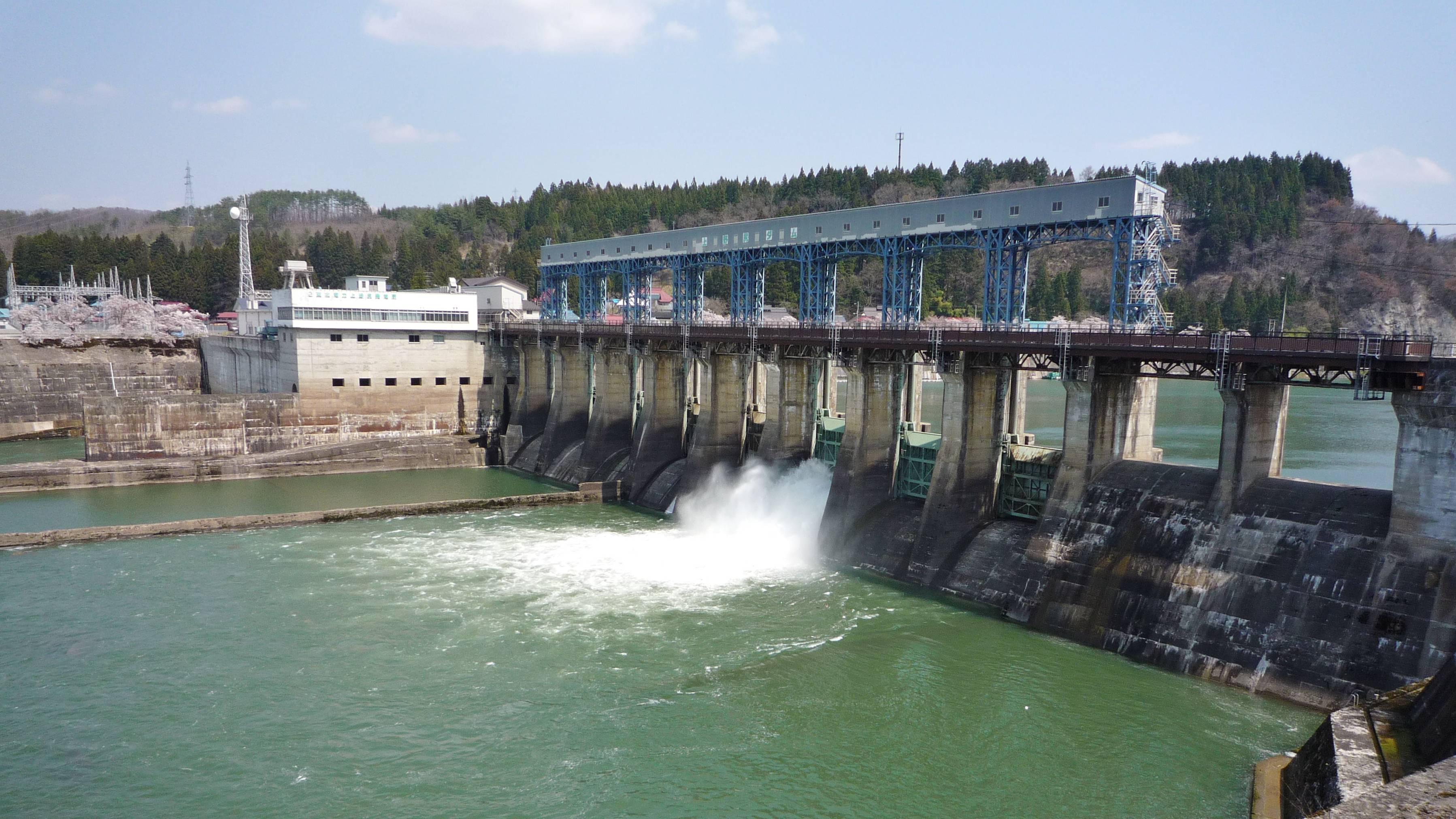 Kaminojiri Dam.